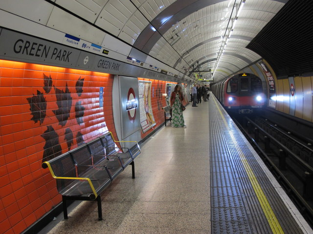 Green Park tube station, Jubilee Line